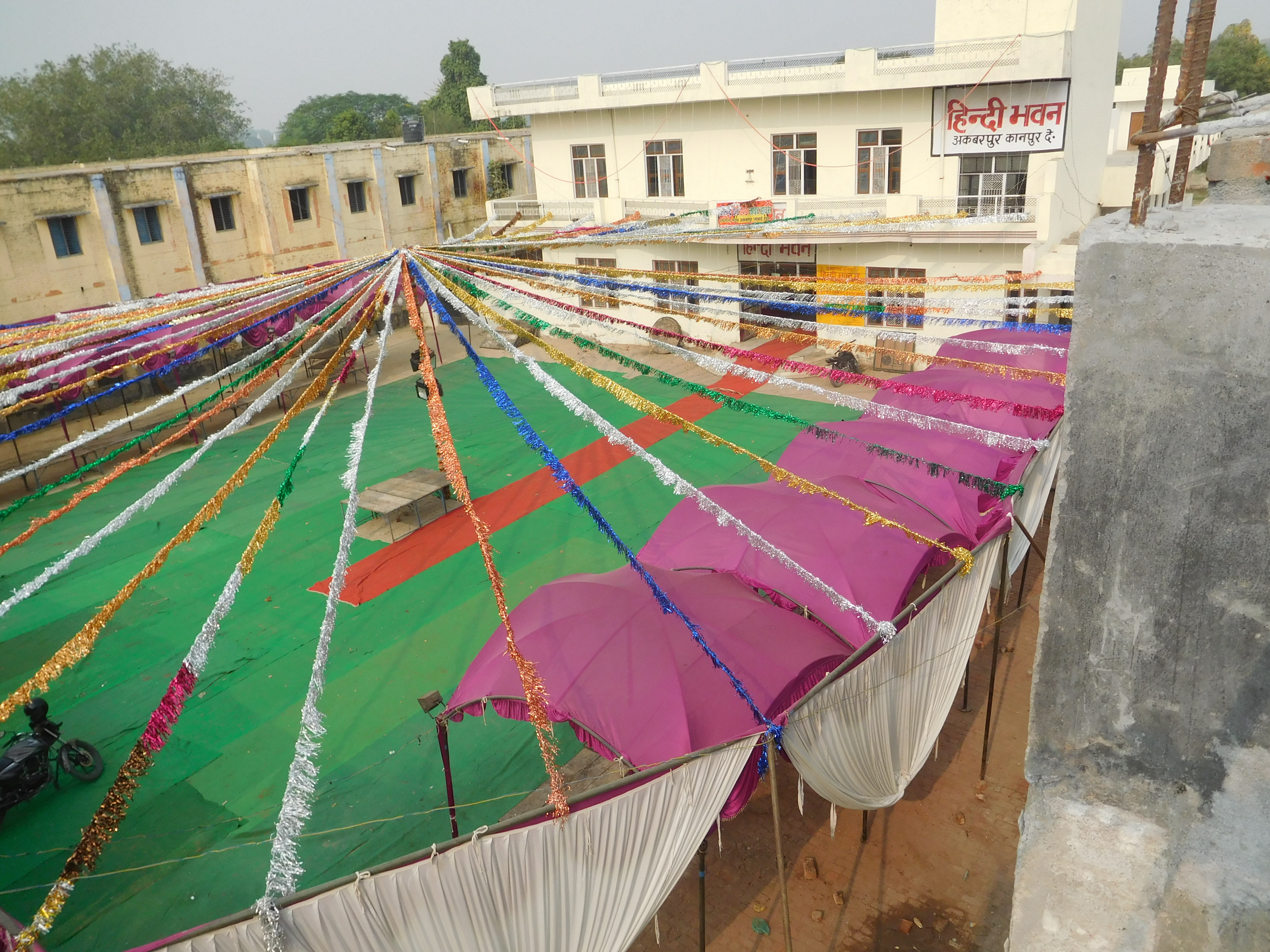 Hindi Bhawan is a convention hall of Akbarpur Inter College in city Akbarpur (Kanpur Dehat)